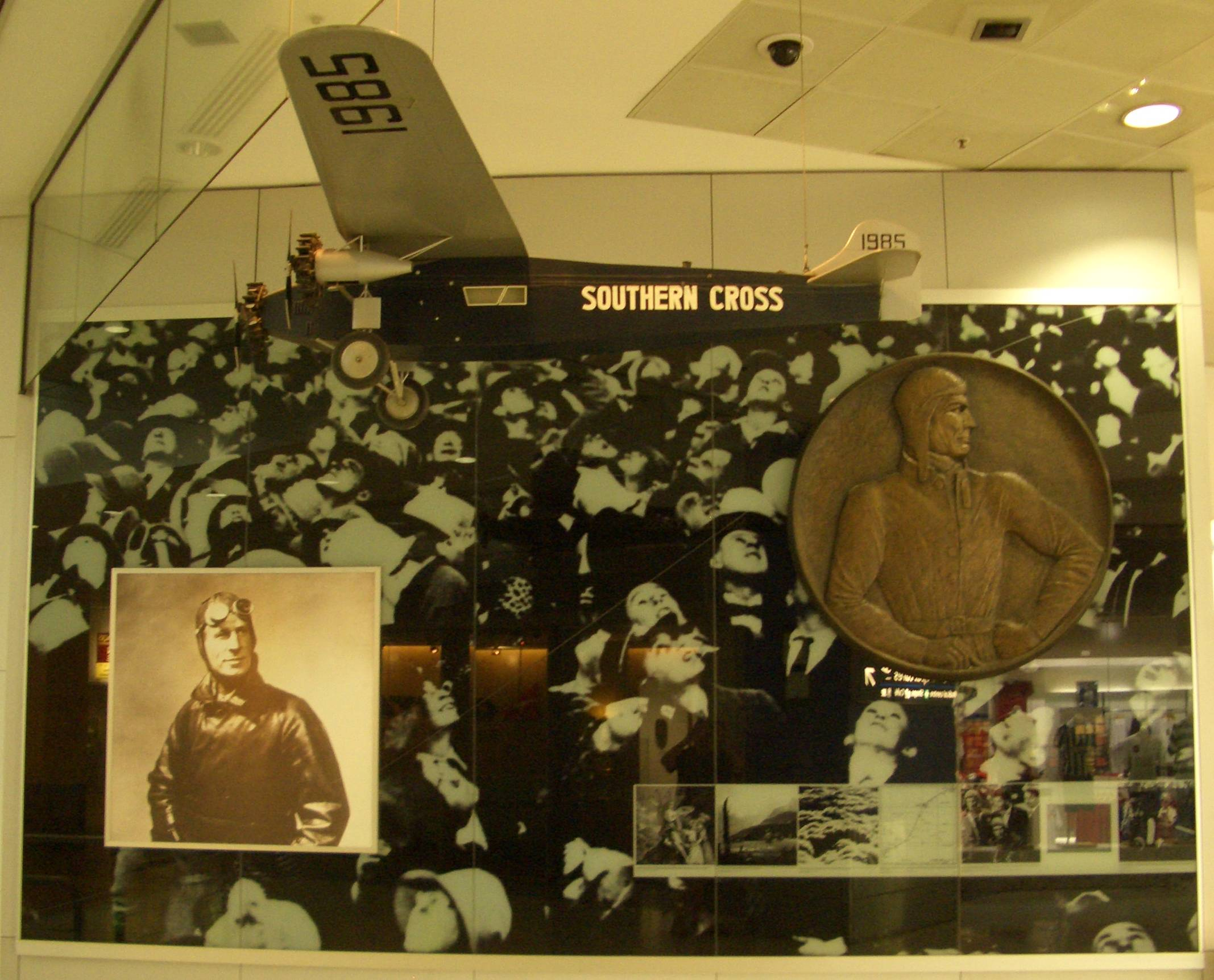 Sydney International Airport Terminal